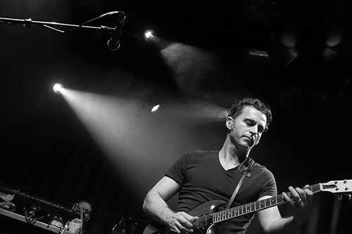 Dweezil Zappa (Zappa-playsZappa band) in Aarhus, Denmark 2015